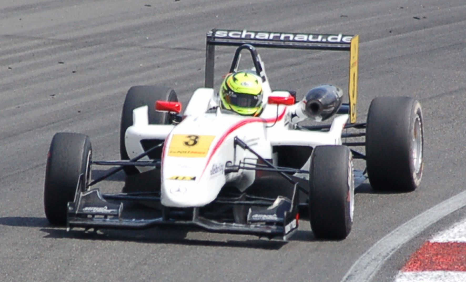 Nigel Melker at Zandvoort 2011